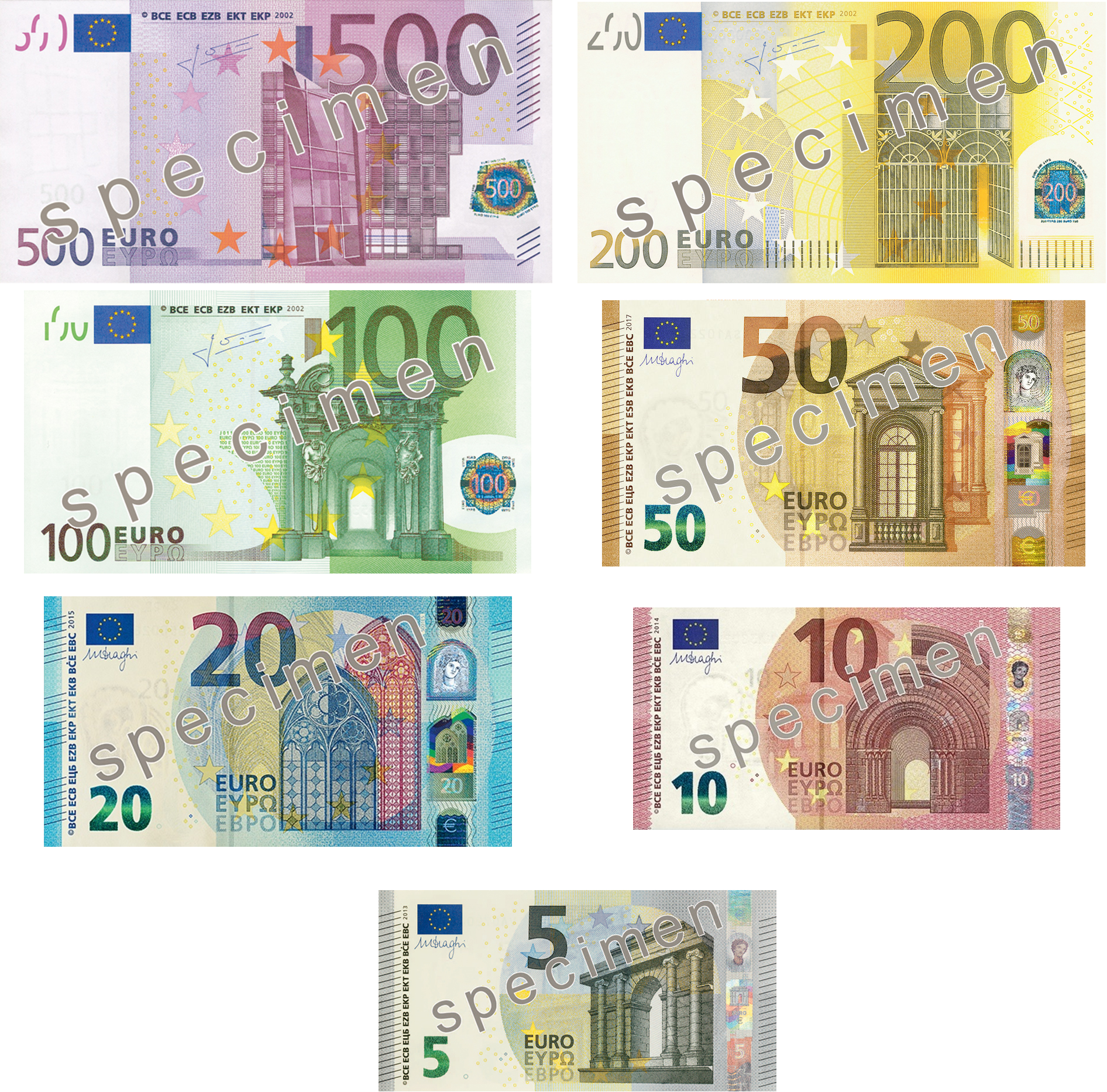 Euro Banknotes as of 4/4/2017